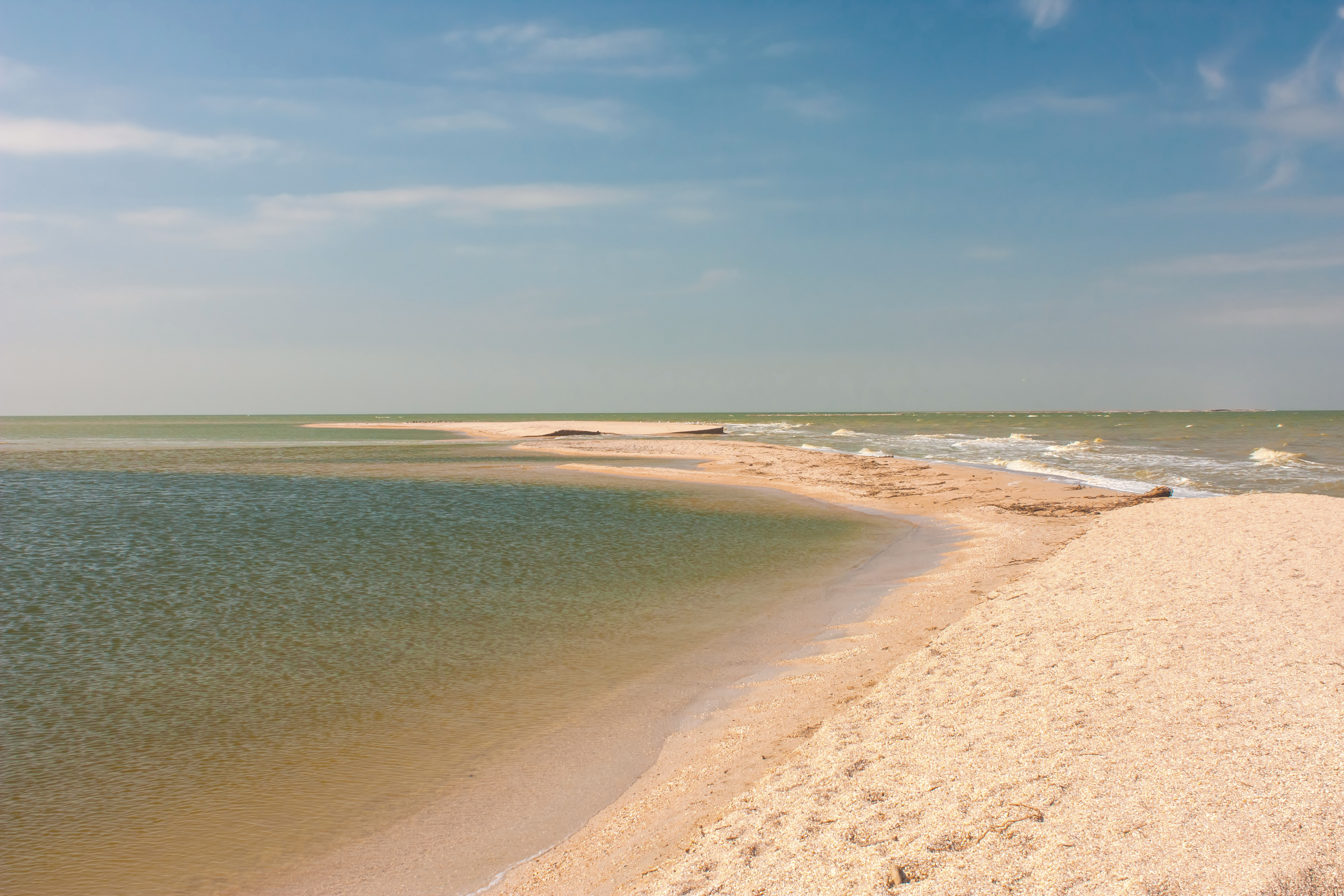 Long Spit Sea of Azov, Yeisk district, Krasnodar region